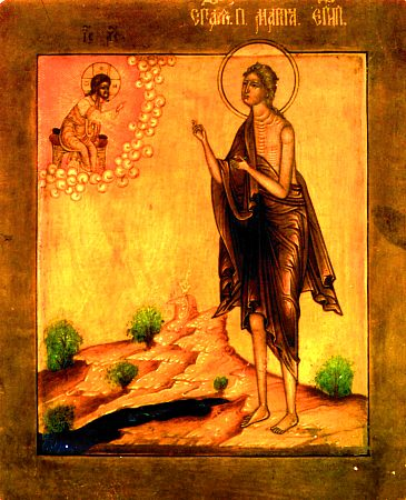 St. Mary of Egypt (ortodox icon)